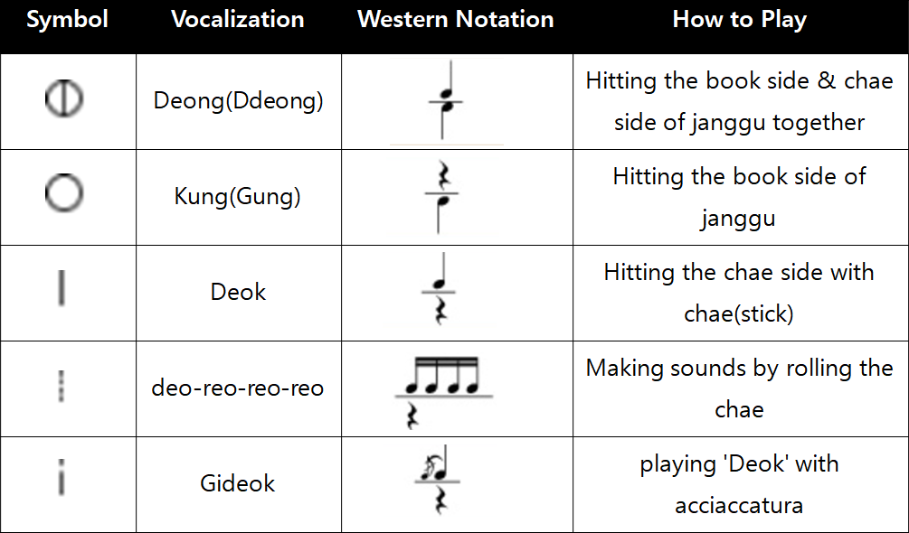 A table about how to read a Jangdan